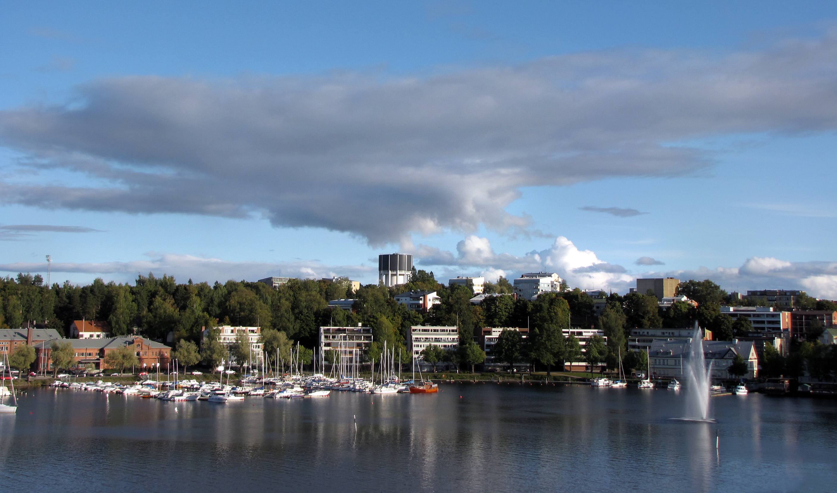 A view over Lappeenranta harbour.